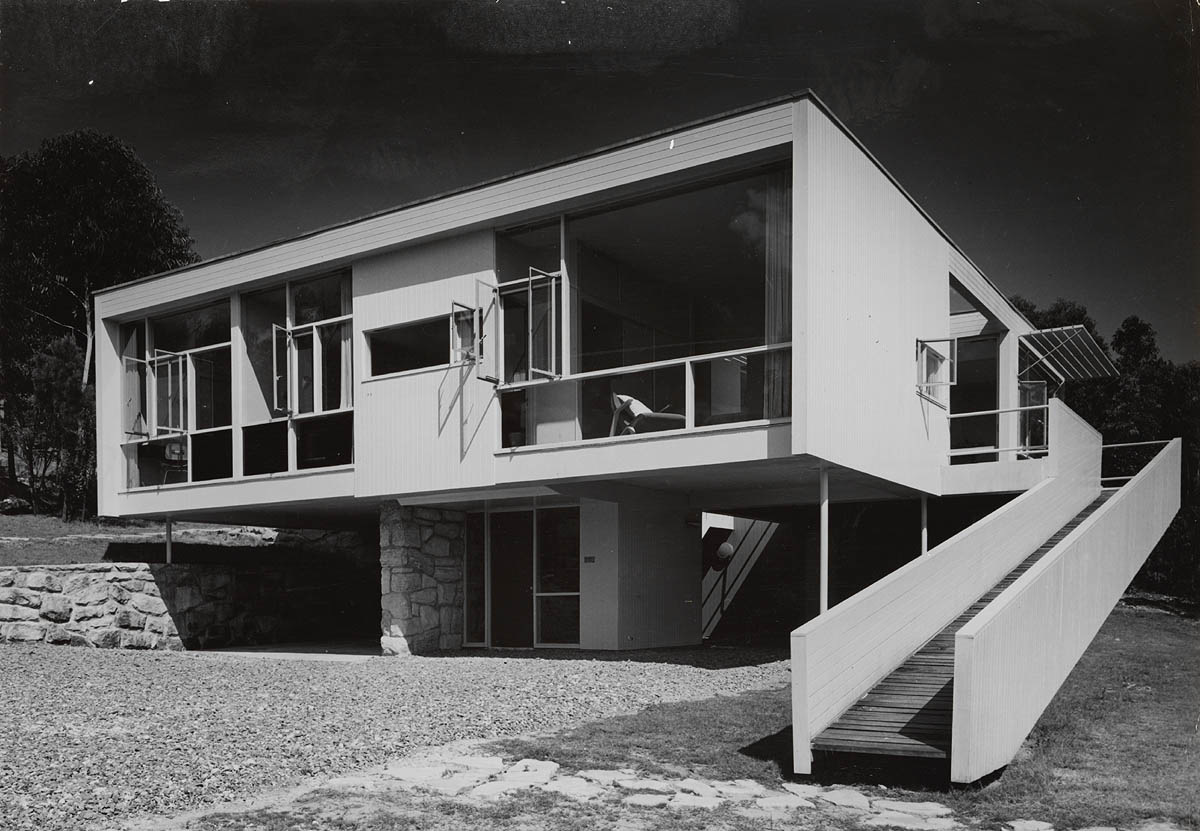 Rose Seidler House (built 1950) — at Turramurra (now Wahroonga), Sydney, New South Wales, Australia. Modern Movement house designed by the architect Harry Seidler for his parents, and winner of the Sir John Sulman medal in 1951.